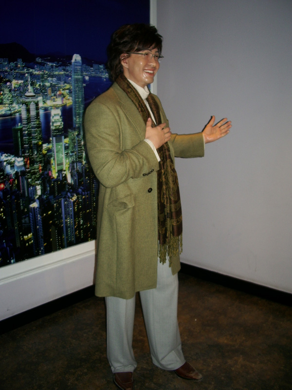 The exhibits include stars from not just Hong Kong and China, but from nearby Asian countries as well. Here is Bae Yong-joon (배용준, 裴勇俊), the South Korean actor and star of "Winter Sonata" who led the way in popularizing the Korean pop culture throughout Asia and beyond. Japanese fans, in particular, are known to worship him by referring to him in an honorific nickname, ヨンさま (Yon-sama, "yon" being the closest Japanese sound to "Yong"). The decline of Hong Kong's own pop culture wave partly had to do with the rise of newly affluent South Korea and its pop culture competition, but also had to do with the anxiety over the Communist Chinese takeover. Fortunately, the Communists left Hong Kong's freedoms largely alone, but the damage was nevertheless done. Authoritarianism, coming from a far-right government newly in power in Seoul, may indeed similarly curb South Korean creativity in the future.